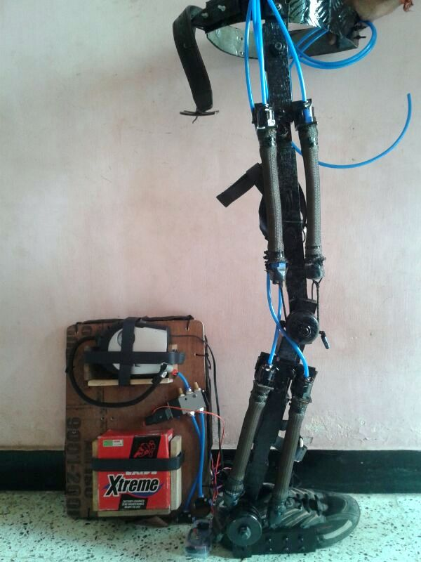 PEARL is a powered exoskeleton modeled and fabricated to automate the human walking. The device is designed, developed and fabricated by Akshay Pujari and his team from Kolhapur Institute of Technology, Kolhapur - India.